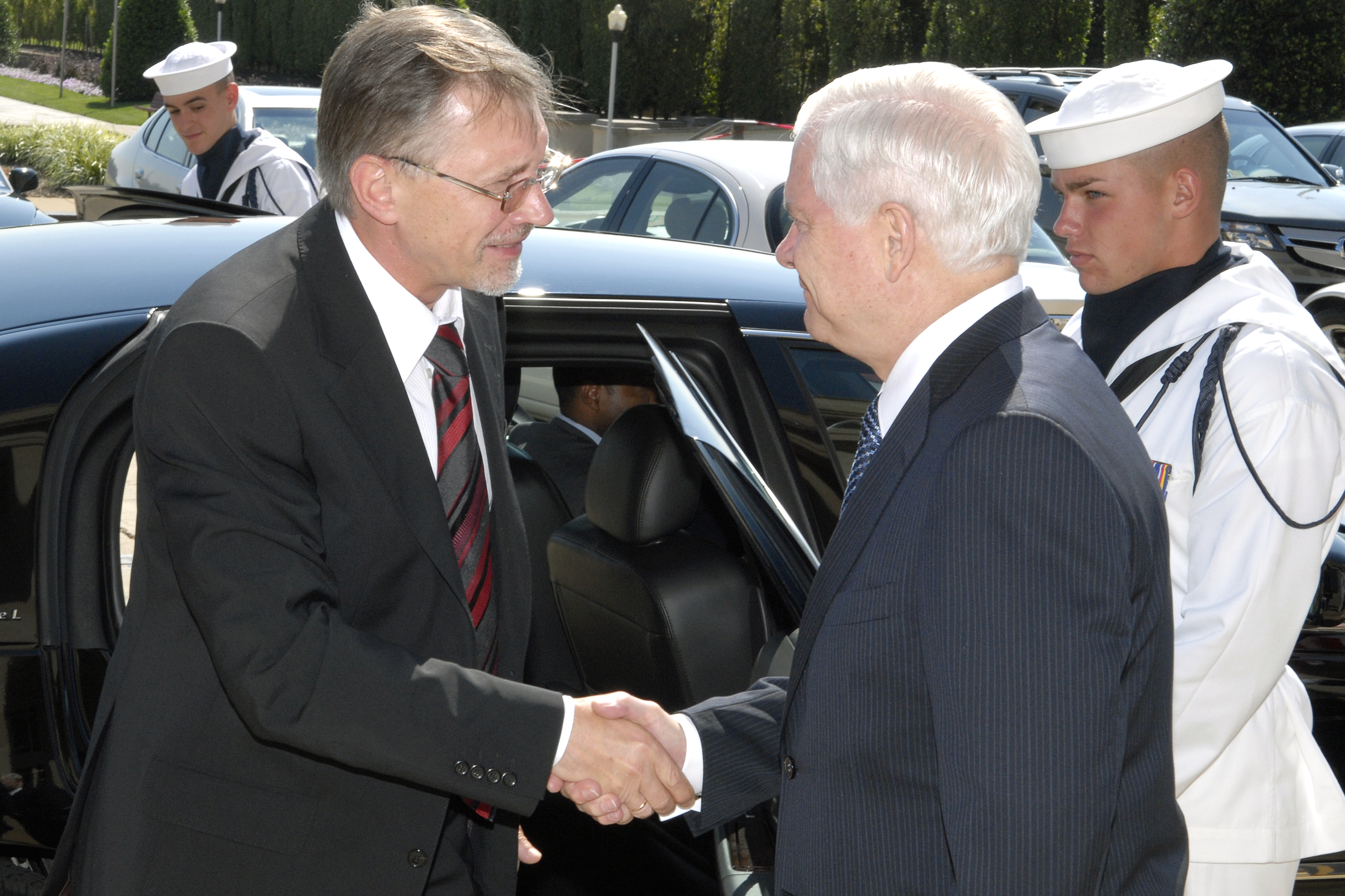 U.S. Defense Secretary Robert M. Gates, right, greets Lithuanian Prime Minister Gediminas Kirkilas at the Pentagon River Entrance prior to escorting him through an honor cordon to conduct a closed door discussion of bilateral issues, July 1, 2008. Defense Dept